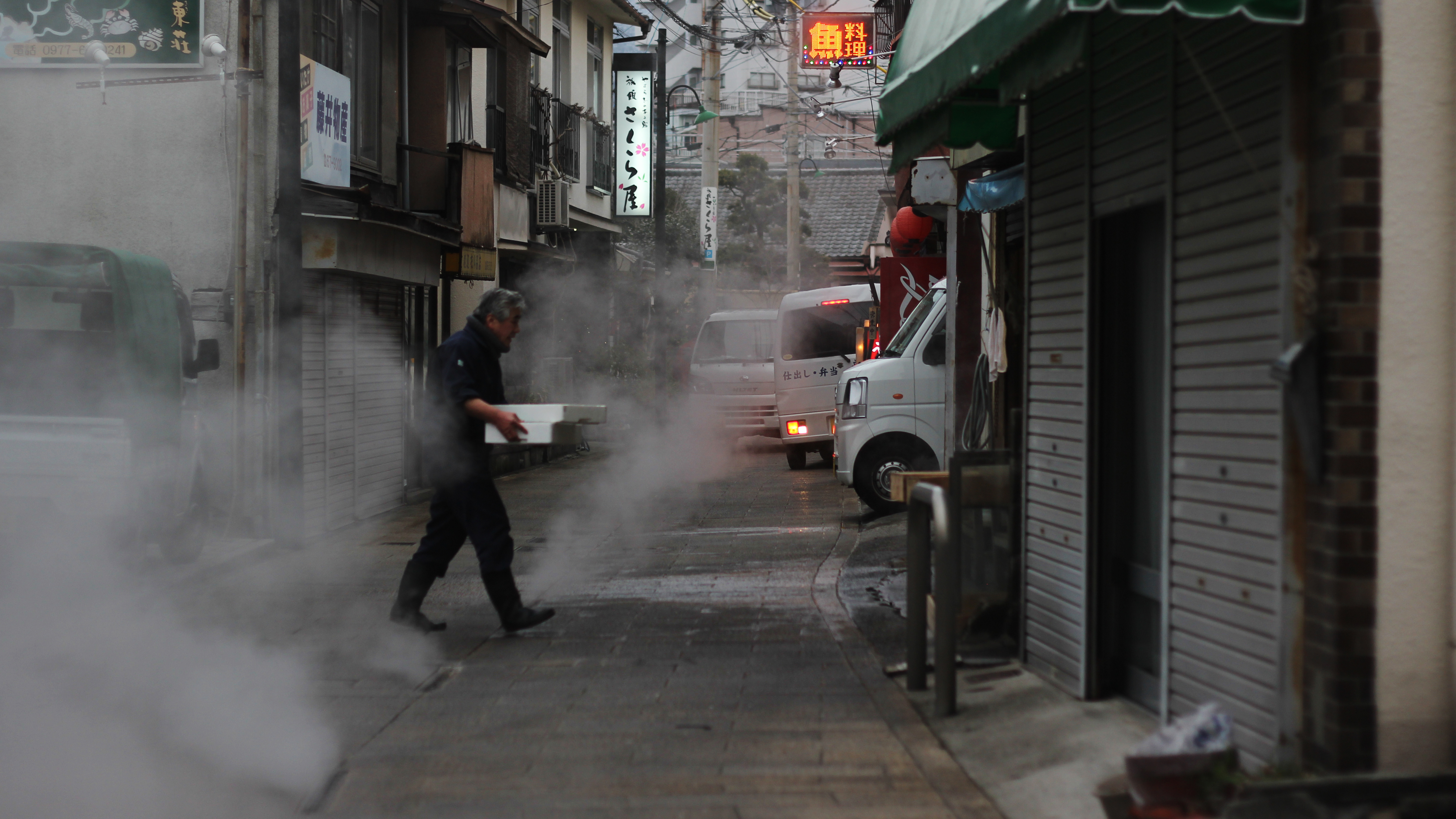 Beppu City, Oita Prefecture